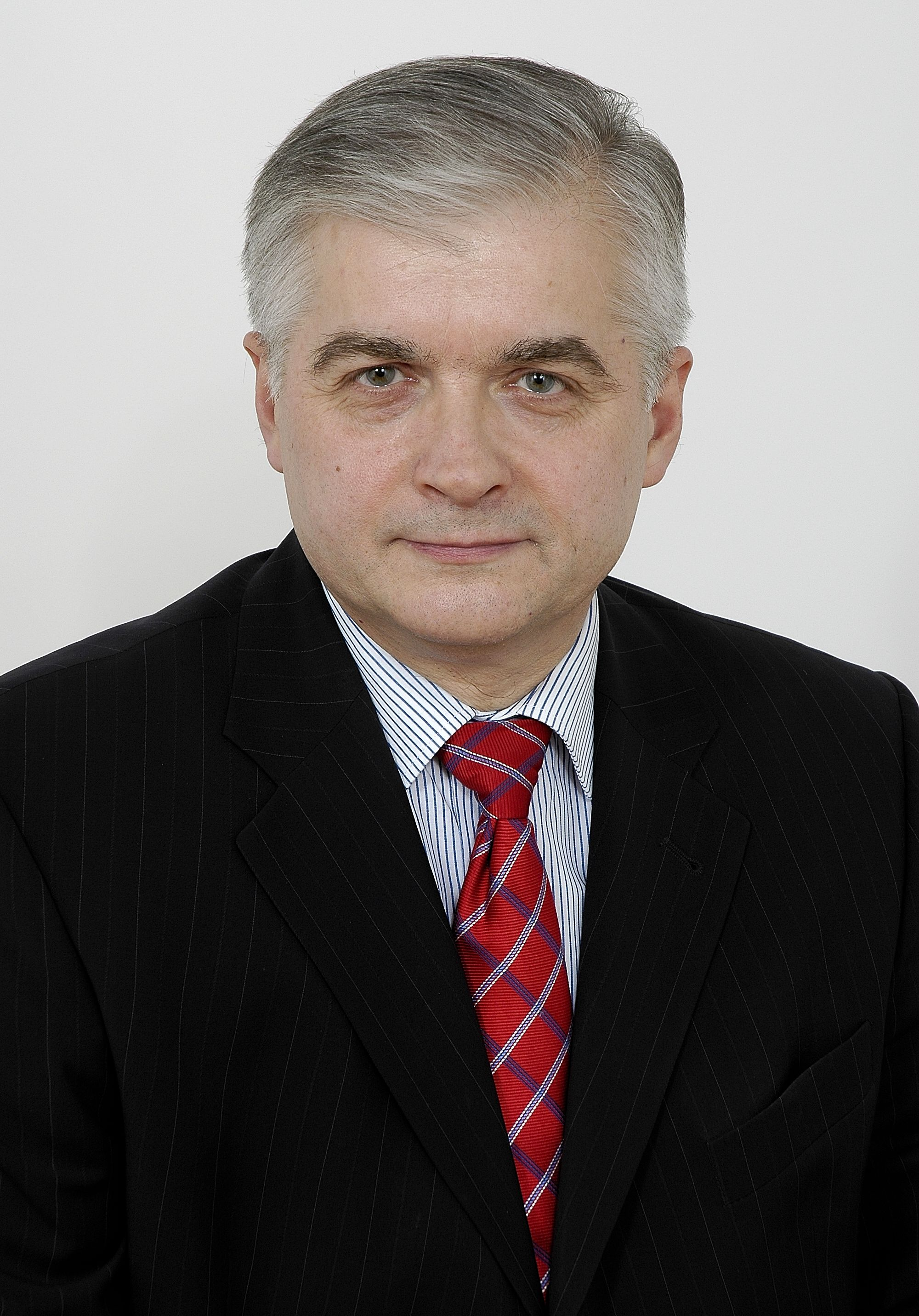 Senator Włodzimierz Cimoszewicz